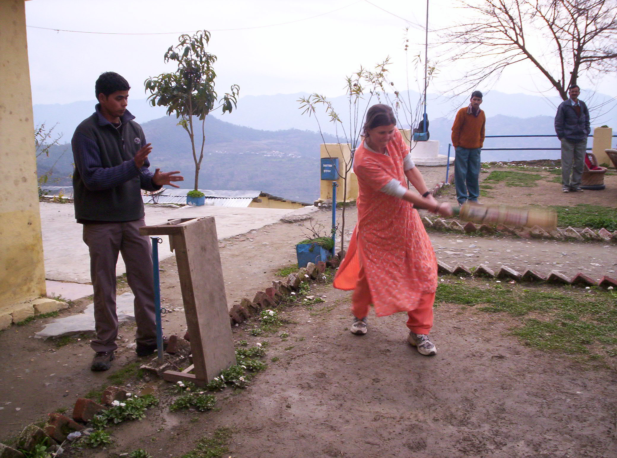 Western girl in salwar kameez swinging a cricket bat as Indians watch.